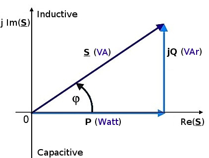 WARNING! This illustration is misleading, as the positive imaginary axis is noted Capacitive, when a positive Q is actually an inductive load.}{es|Diagrama de angulos entre potencias en circuitos da corriente alternativa. Copiada de es::de:Bild:Blindleistung-Zeigerdiagramm.jpg.